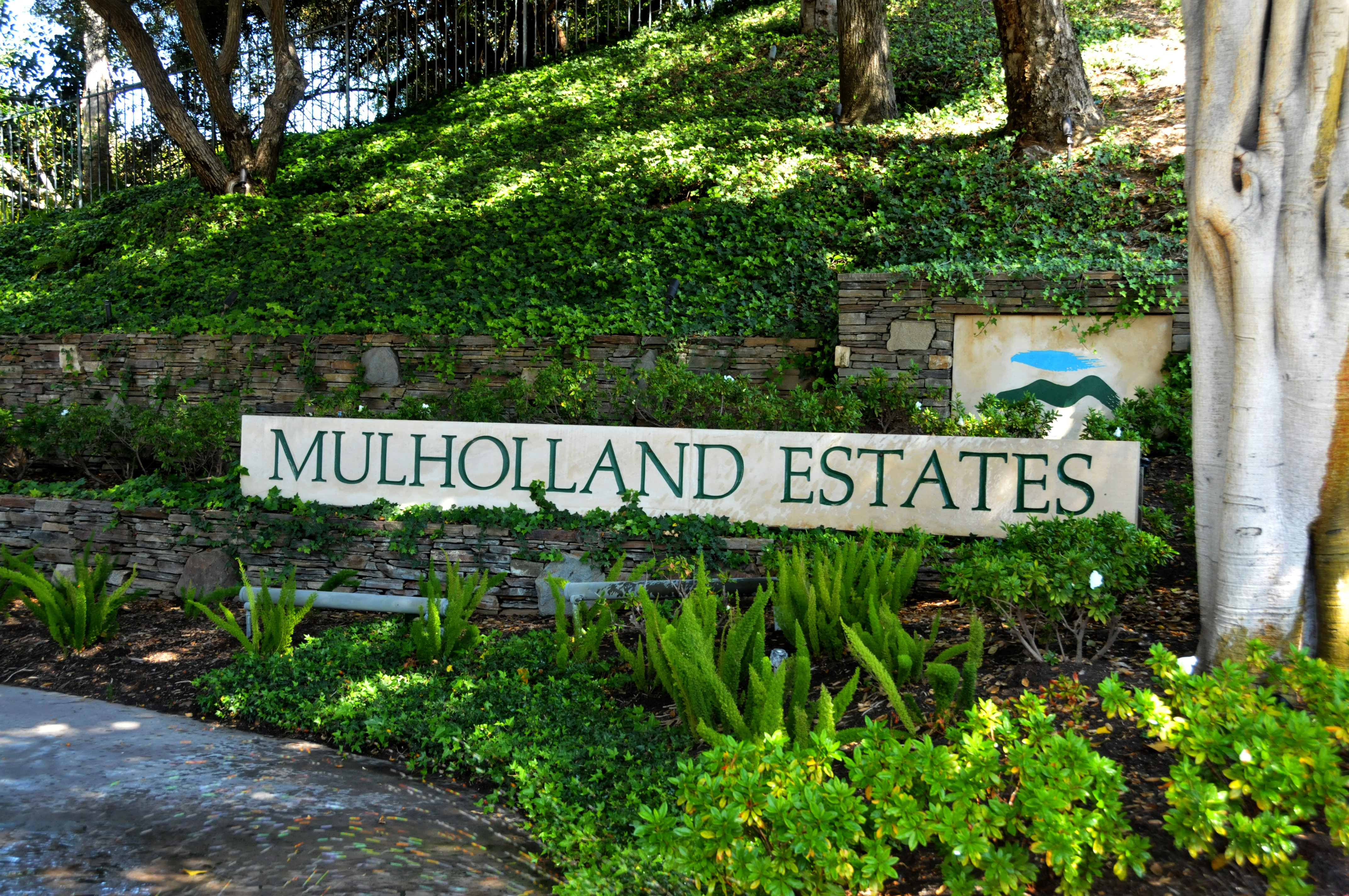 Mulholland_Estates_2015, Sherman_Oaks, California - Photo by Glenn Francis of